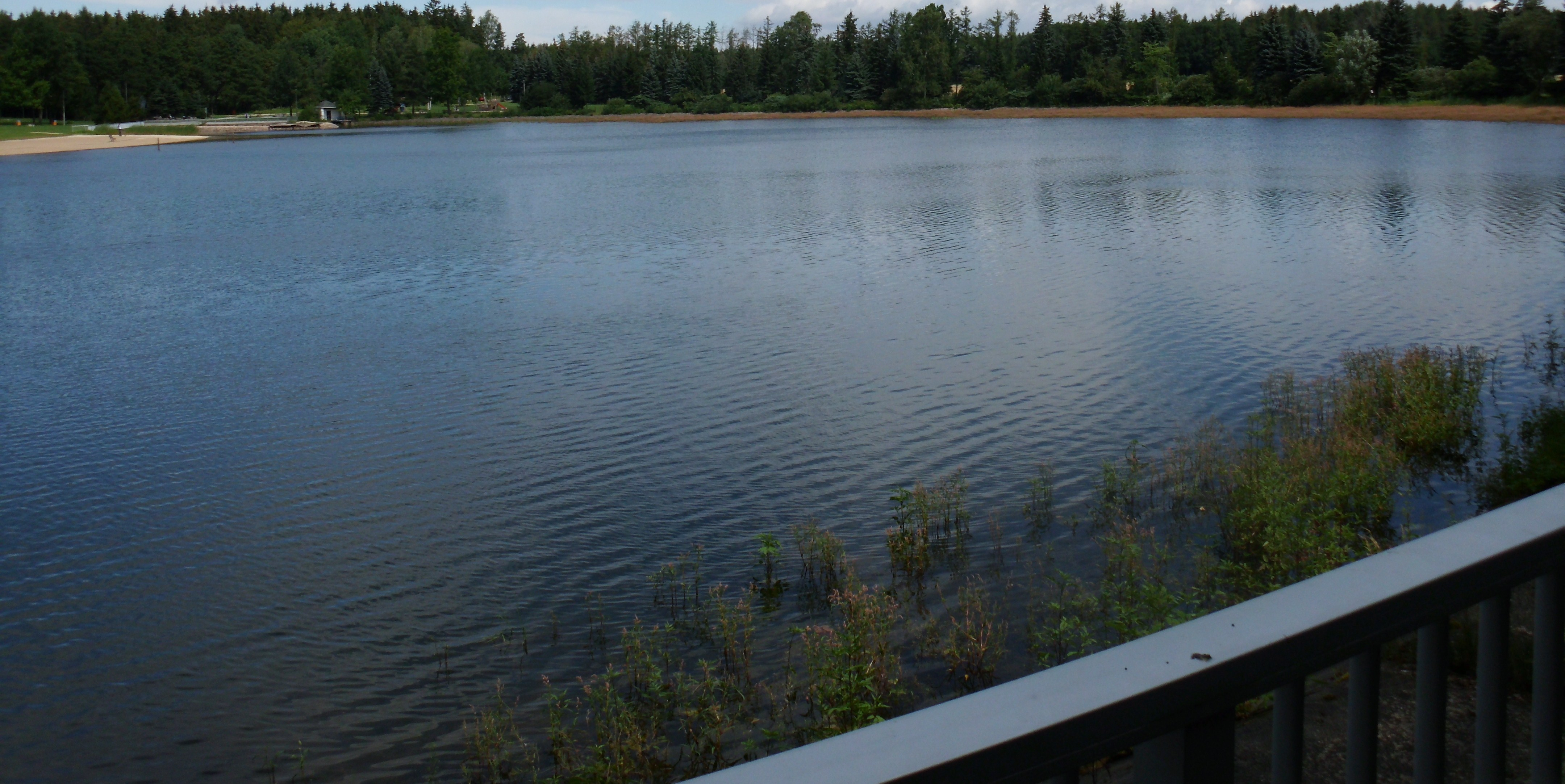 Waldbad Neuwürschnitz